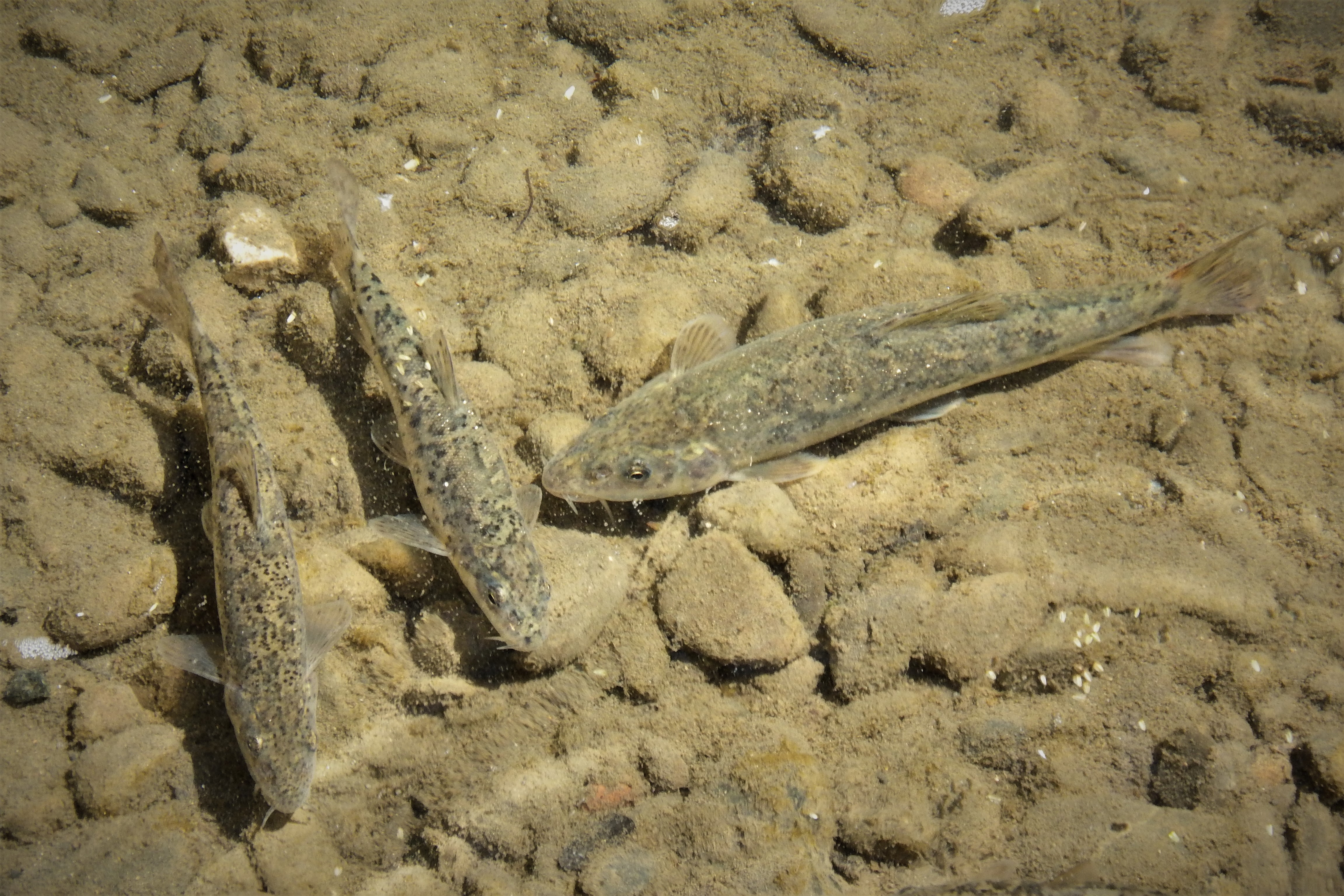 Barbus sperchiensis speciments from Central Greece (Loutra Platystomou)